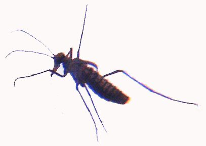 Snow scorpionfly Boreus hiemalis